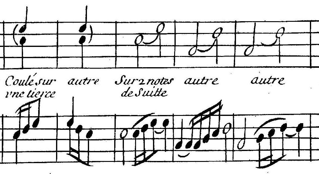 Examples of coulé (slide) as shown on page, "Marques des Agrements et leur signification" from D'Anglebert's Pièces de Clavessin (1659)